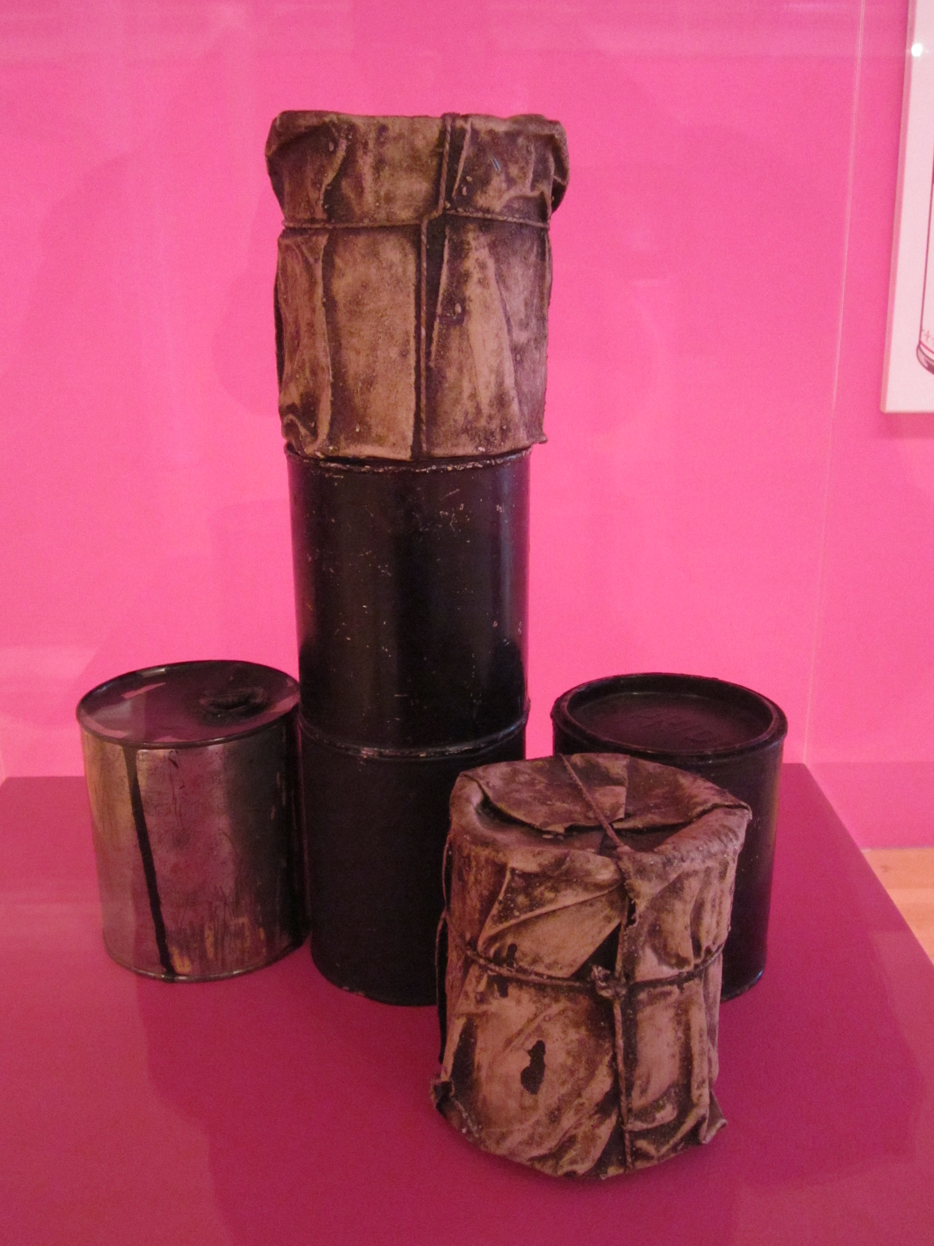 Wrapped Cans, Part of Inventory by Christo, Tate Liverpool, England.